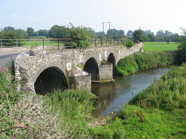 Bridge at Boolies, Duleek, Co. Meath Immediately upstream of this bridge, the Rivers Nanny and Hurley meet.